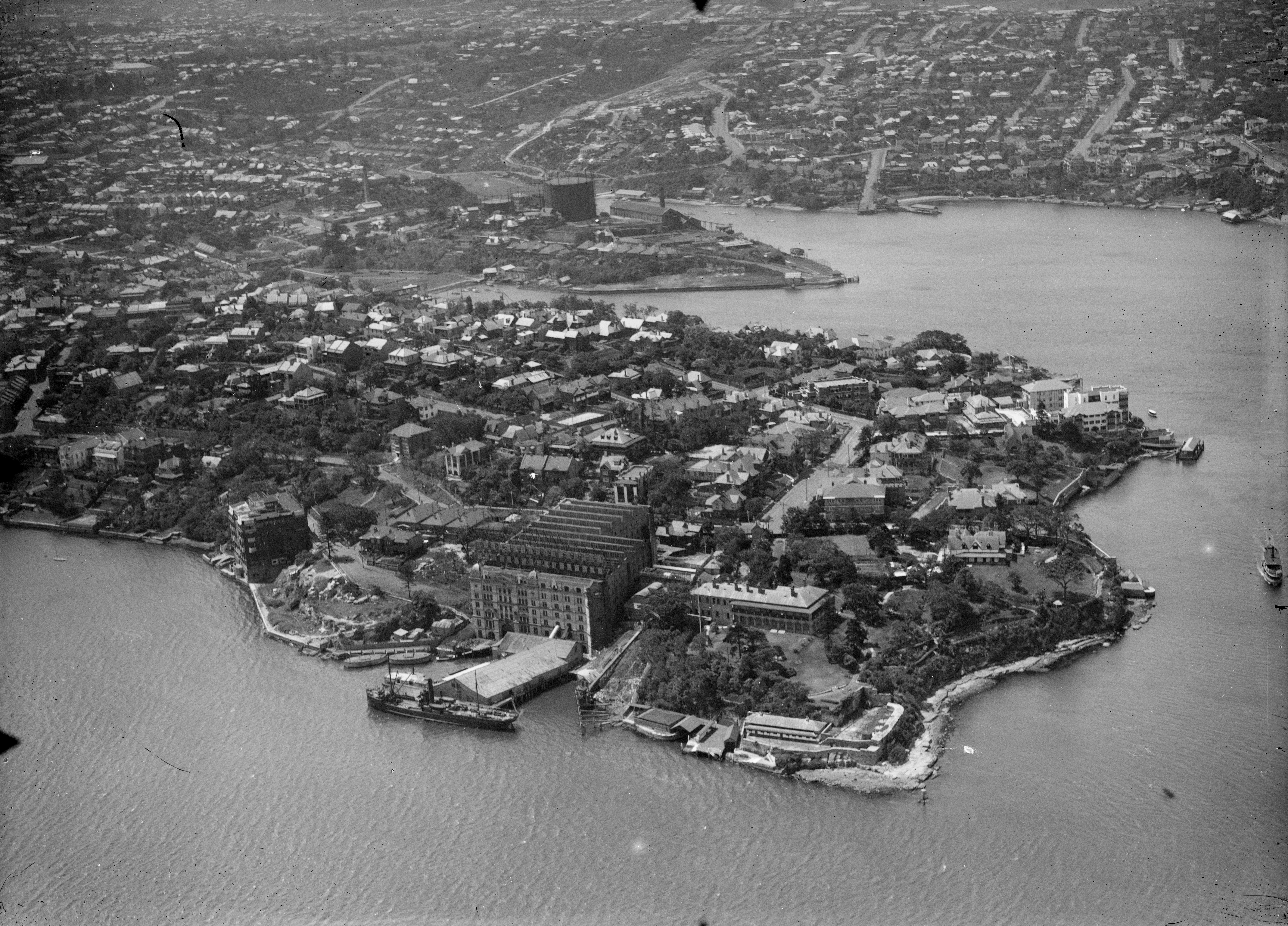 This photograph of the Pastoral Finance Association building, next to Admiralty House on Kirribilli Point was taken by Milton Kent prior to December 1921